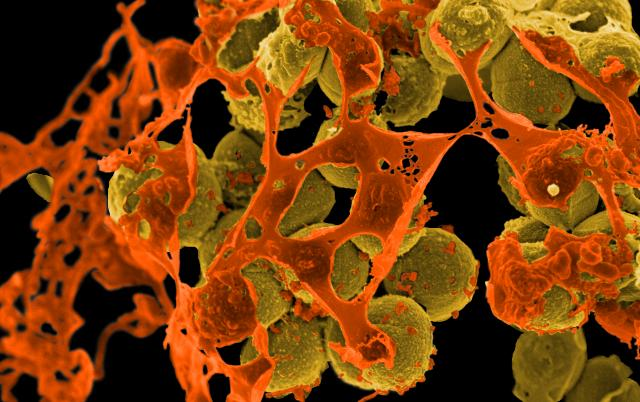 Scanning electron micrograph of methicillin-resistant Staphylococcus aureus (MRSA, brown) surrounded by cellular debris. MRSA resists treatment with many antibiotics. Credit: NIAID